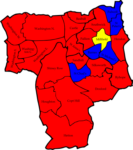 A map of the results of the 2006 Sunderland Council election. Colour legend by wards won: Labour party Conservative party Liberal Democrats